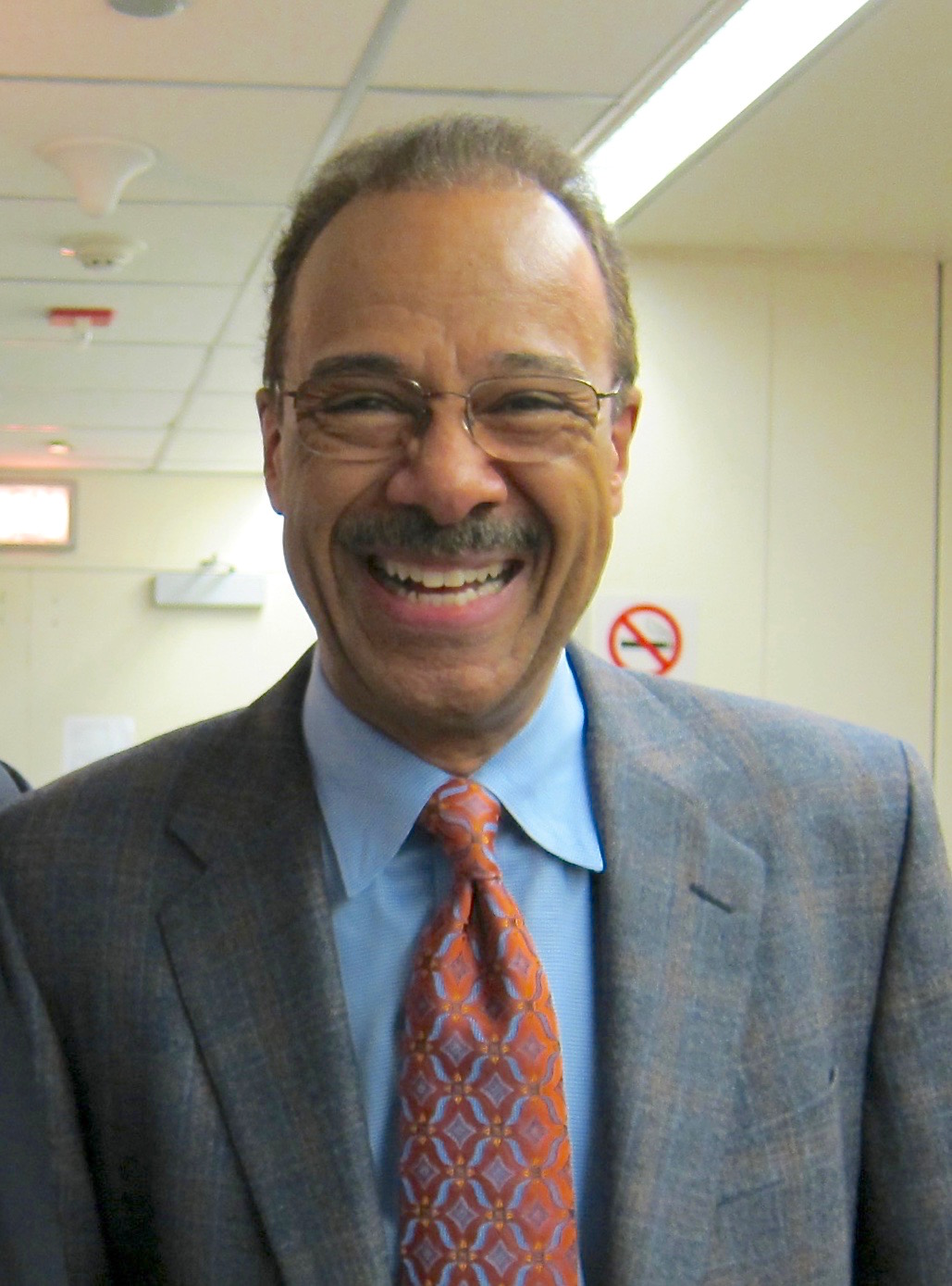 Spencer Christian, television weather forecaster from San Francisco and formerly of ABC's Good Morning America, in 2012